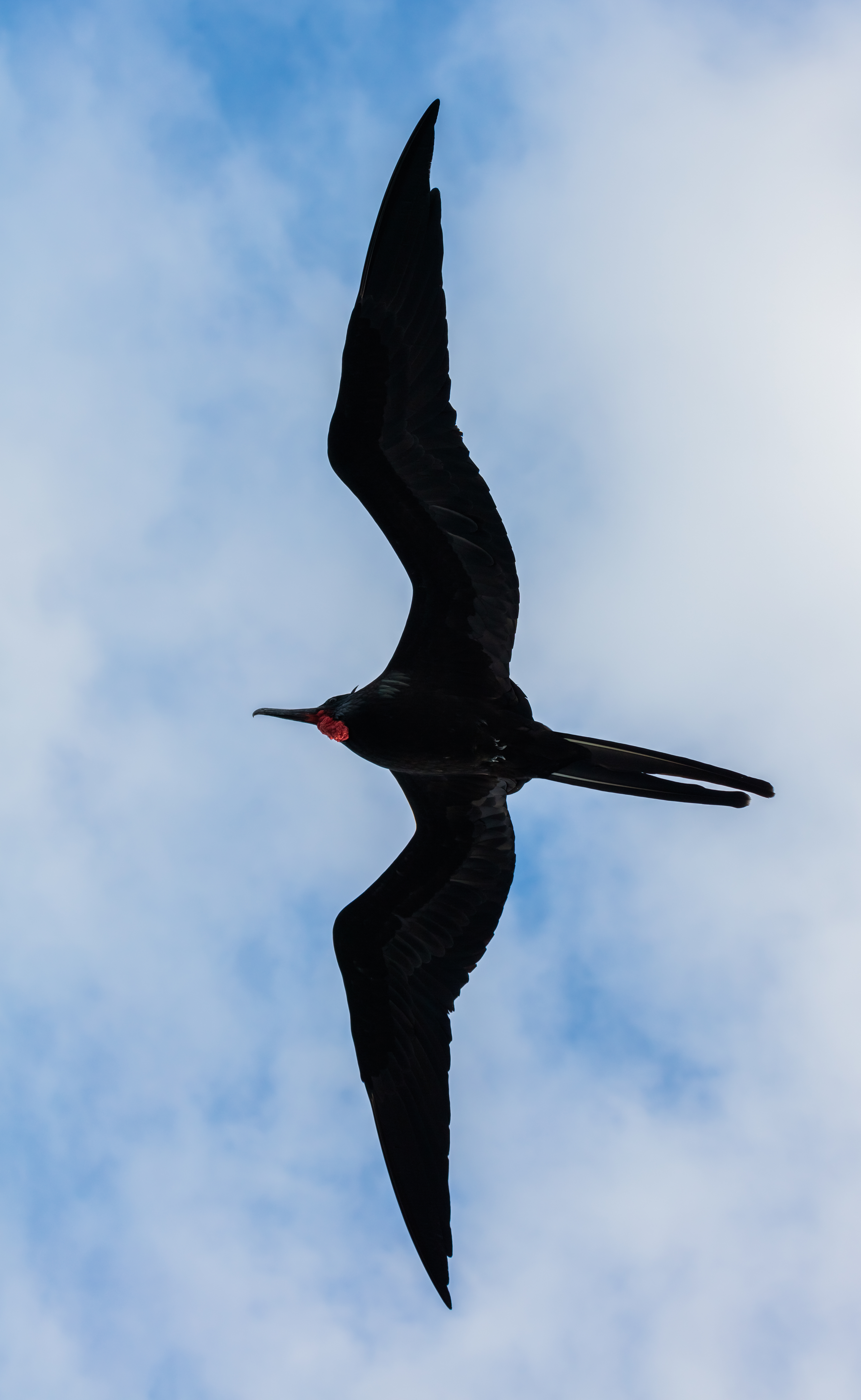 Great frigatebird (Fregata minor), Baltra island, Galapagos islands, Ecuador